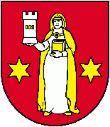 Coat of arms of Slovak village Hranovnica, Poprad District, Prešov Region.